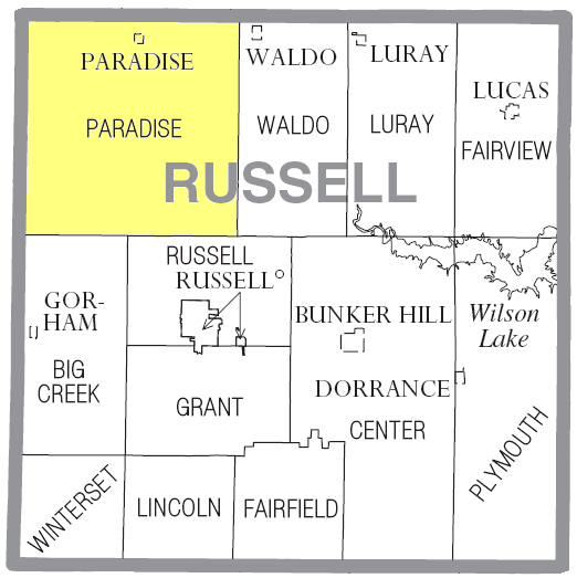 Map of Russell County, Kansas highlighting Paradise Township